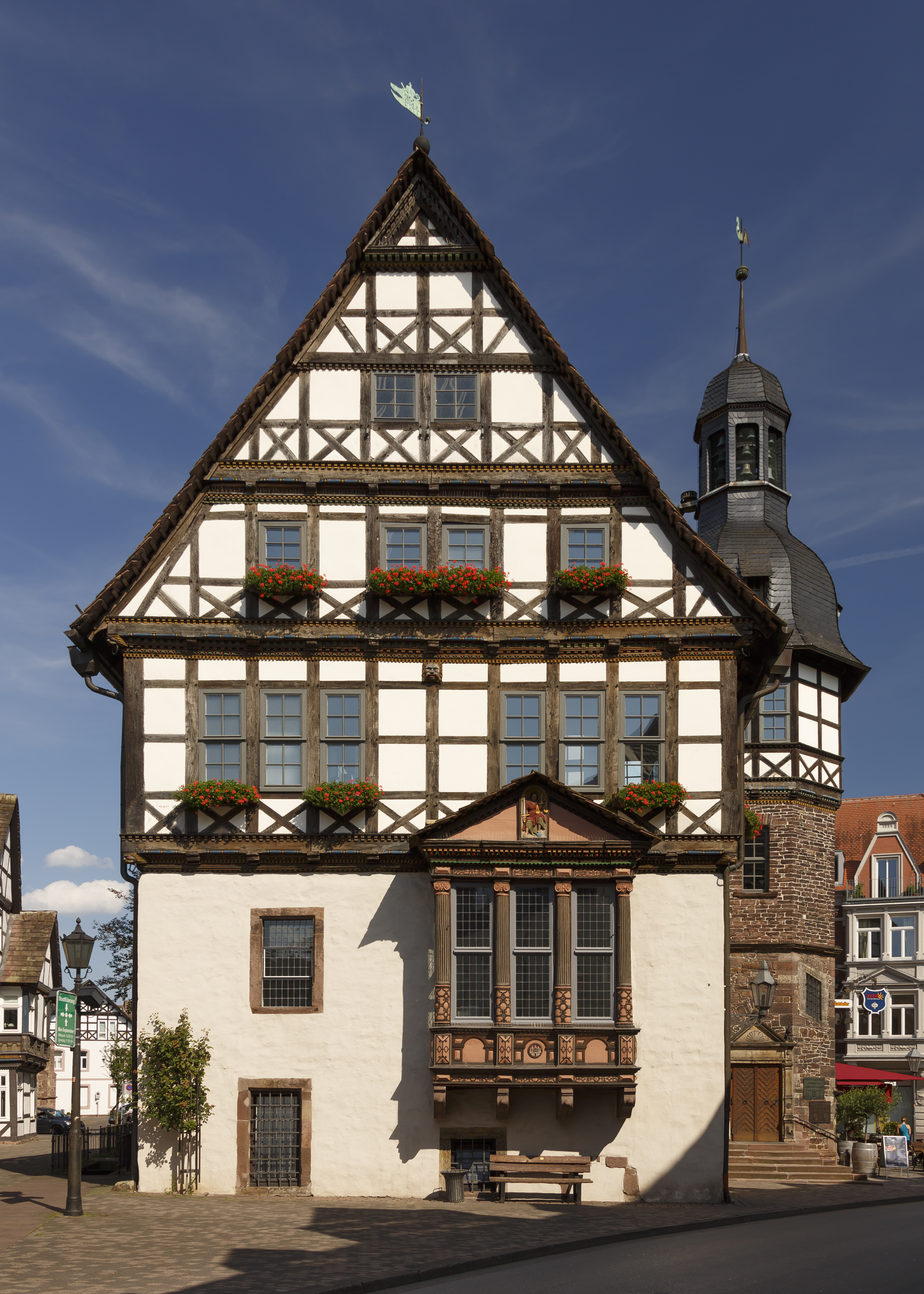 Höxter, Germany: Old town hall